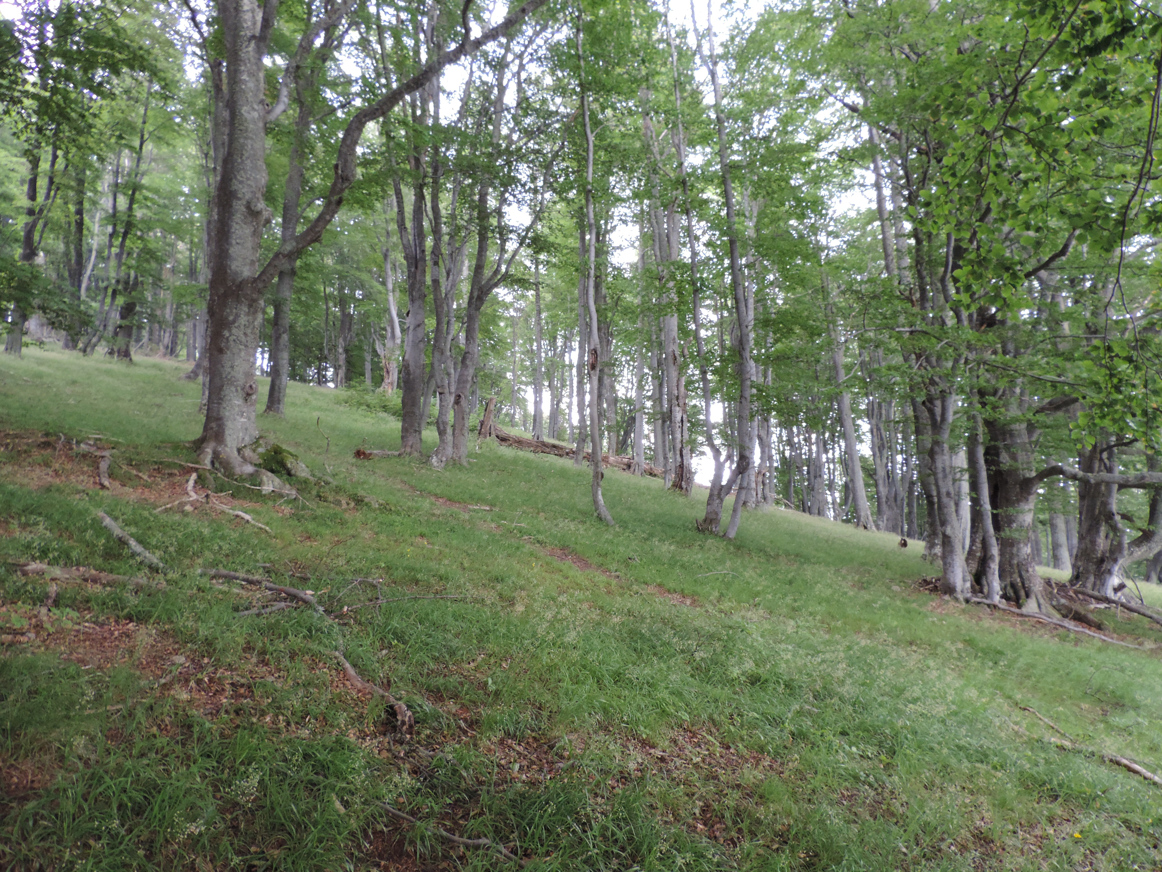 Bogdan reserve, Bulgaria